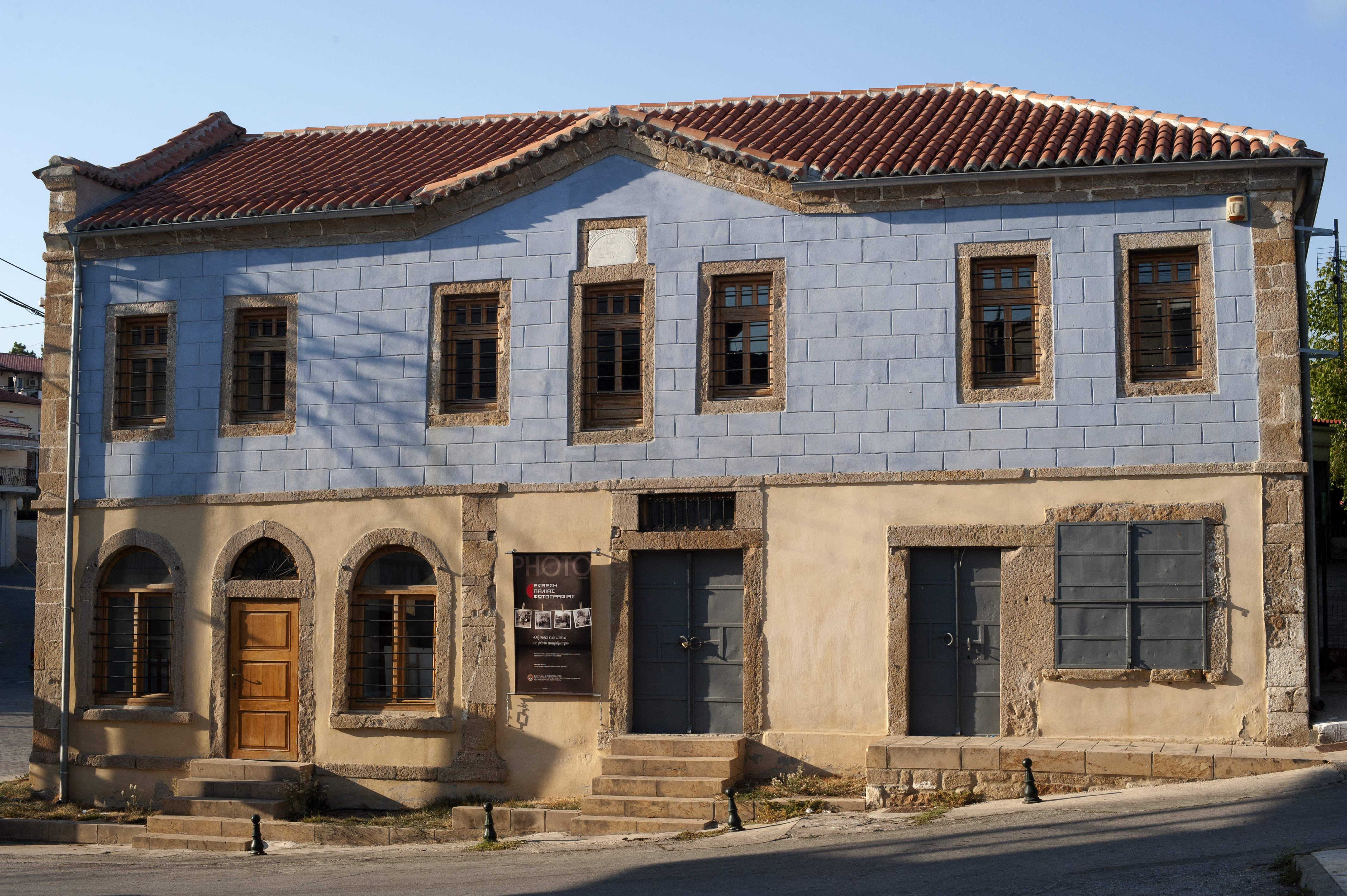 Antilogias domos cultural center in the village of Abdera, Xanthi, Thrace, Greece.